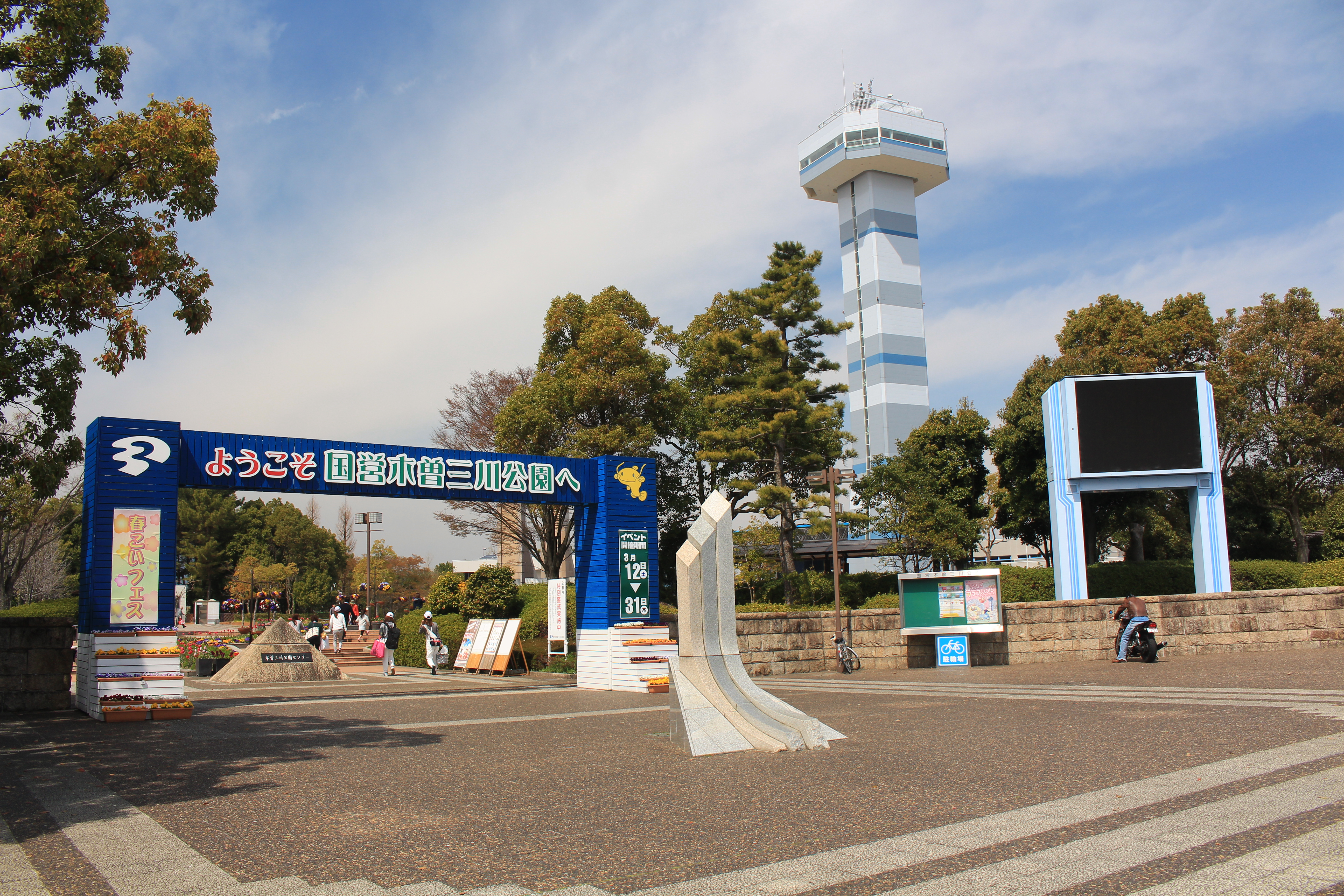 Kiso Sansen Park Center in Kaizu, Gifu prefecture, Japan.